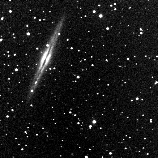 A galaxy captured with CCD-camera of the remotely controlled telescope at the Tycho Brahe observatory